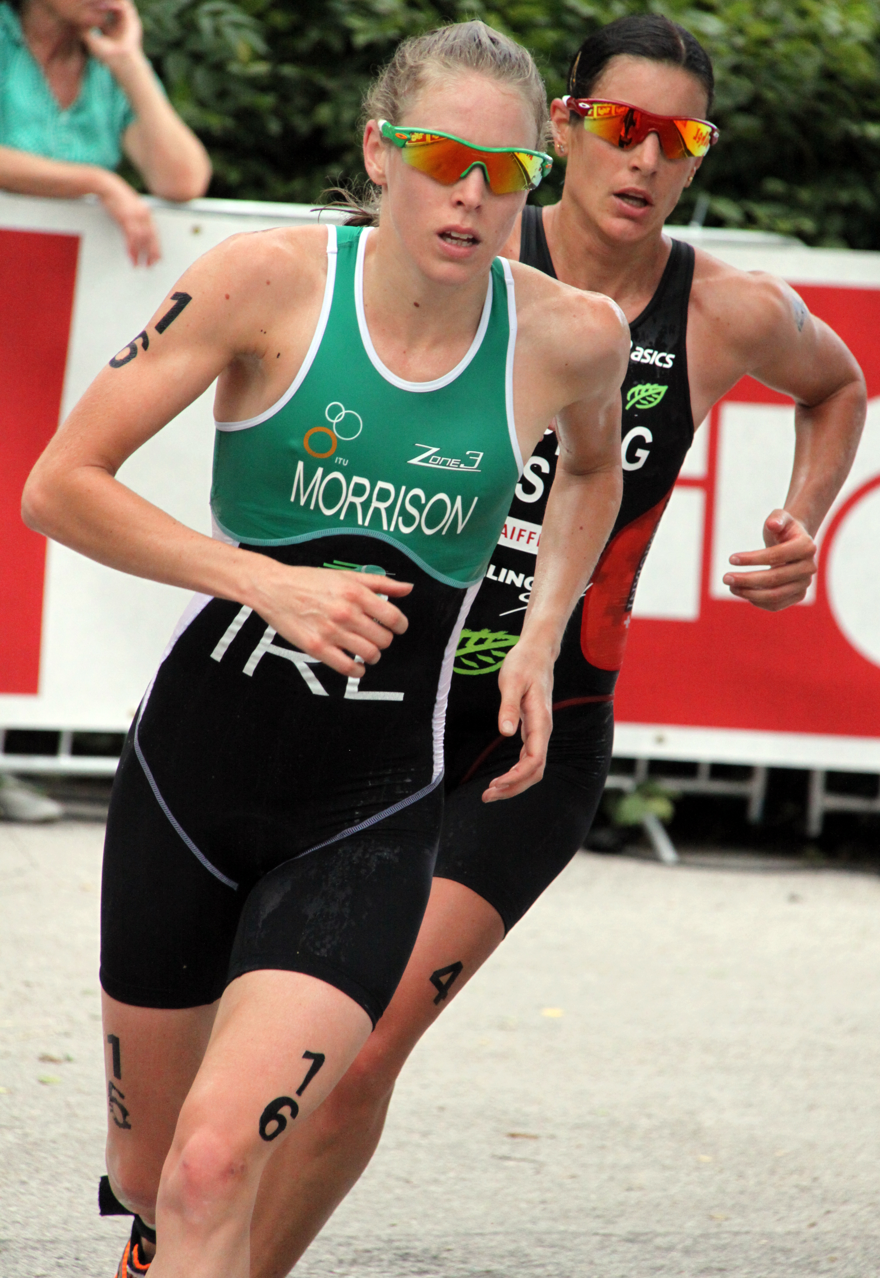 Aileen Morrison at the World Championship eries Triathlon in Kitzbuhel (Kitzbühel), 2010, closely chased by Nicola Spirig.